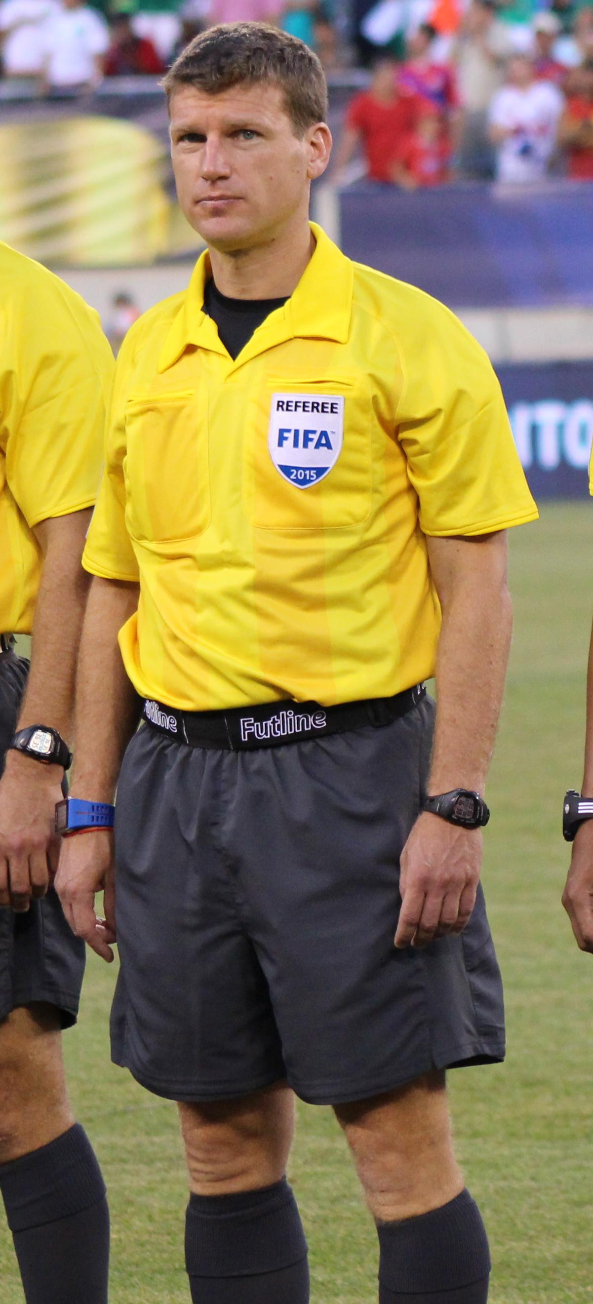 Canadian referee David Gantar